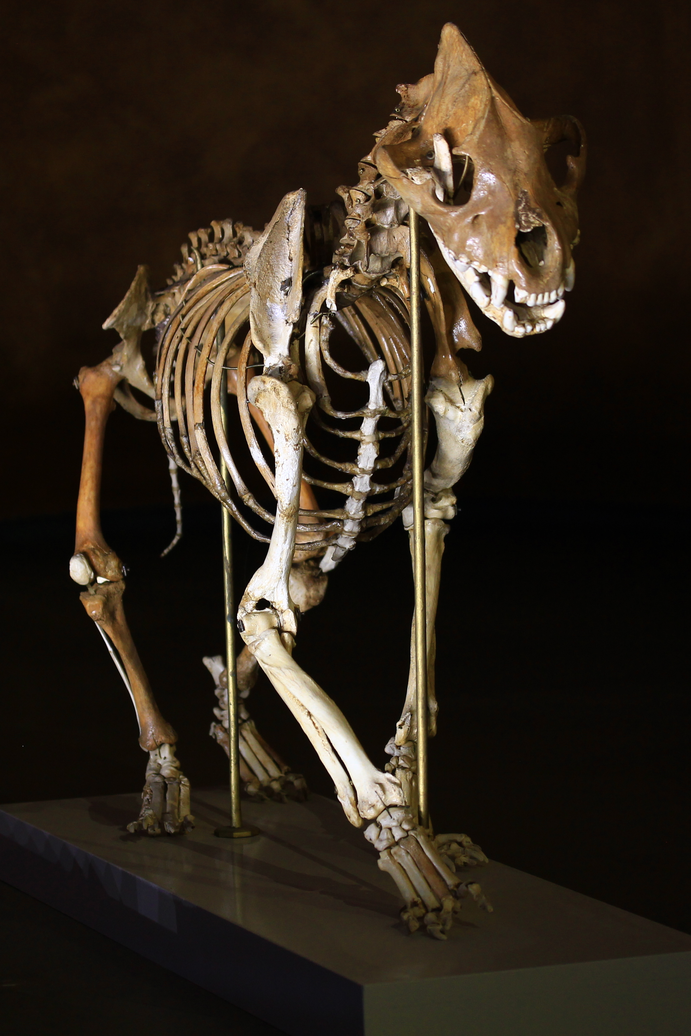 Cave hyena (Crocuta crocuta spelaea), 1.8/0.01 million year B.C., Aventigan, Hautes-Pyrénées, France Muséum de Toulouse Native nameMuséum de ToulouseLocationToulouse, FranceCoordinates43° 35′ 37.89″ N, 1° 26′ 57.42″ E Established1796: established ; 1865: opened to publicWeb page control : Q422 VIAF: 130895847 ISNI: 0000 0001 2158 3469 SUDOC: 028667107 BNF: 120455376 Museofile: M7013 institution QS:P195,Q422